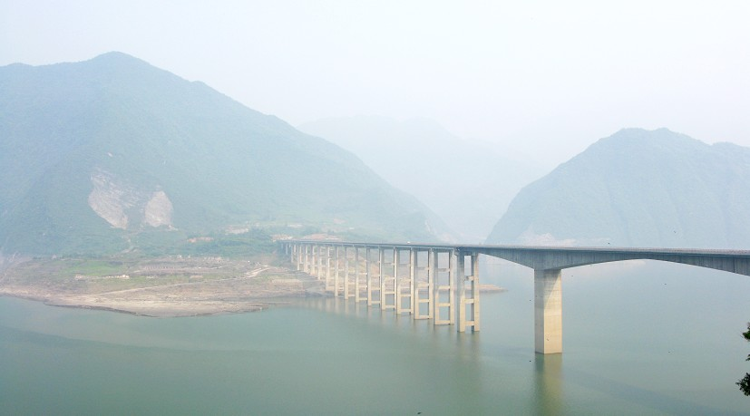 The Miaoziping Bridge